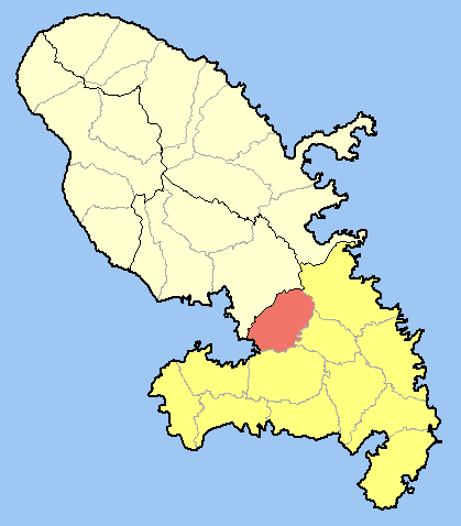 Location of Ducos within Martinique